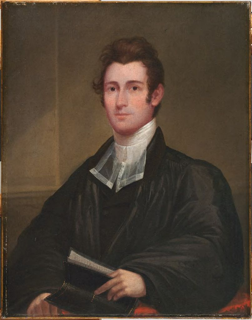 Portrait of Rev. Samuel Gilman (1791-1858) by the American artist Alvan Fisher (1792-1863), oil on canvas. 32 7/8 in. x 25 13/16 in. Harvard University Portrait Collection, gift of Mrs. Charles J. Bowen, daughter of Rev. Samuel Gilman.